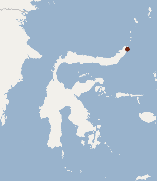 According to the Authors